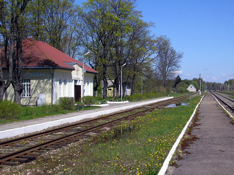 Kalnėnai train station, Jonava district, Lithuania.